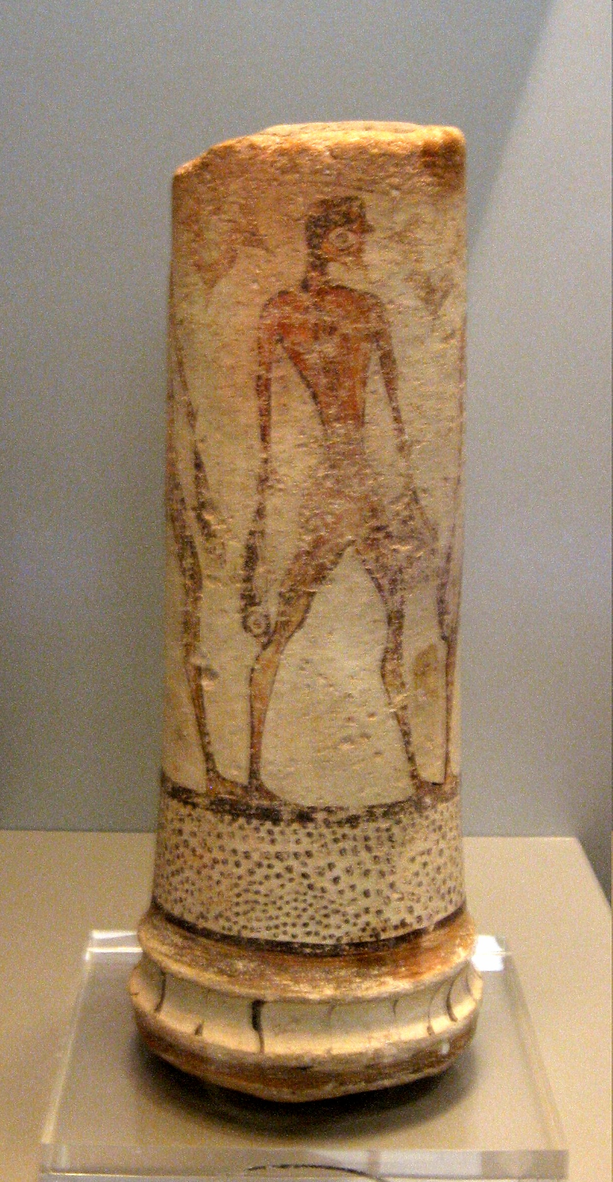 Cylinder, probably a stand for a vase, with a painted representation of fisherlen moving to the right; from Phylakopi III on Melos. Beginning of 16th cent. B.C. (National Archaeological Museum of Athens)